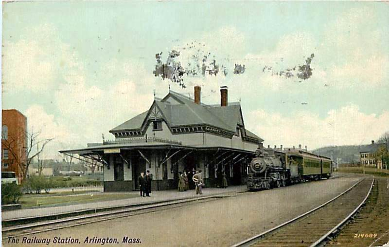 Early (1907-1915) divided back postcard of Arlington station, mailed in 1925